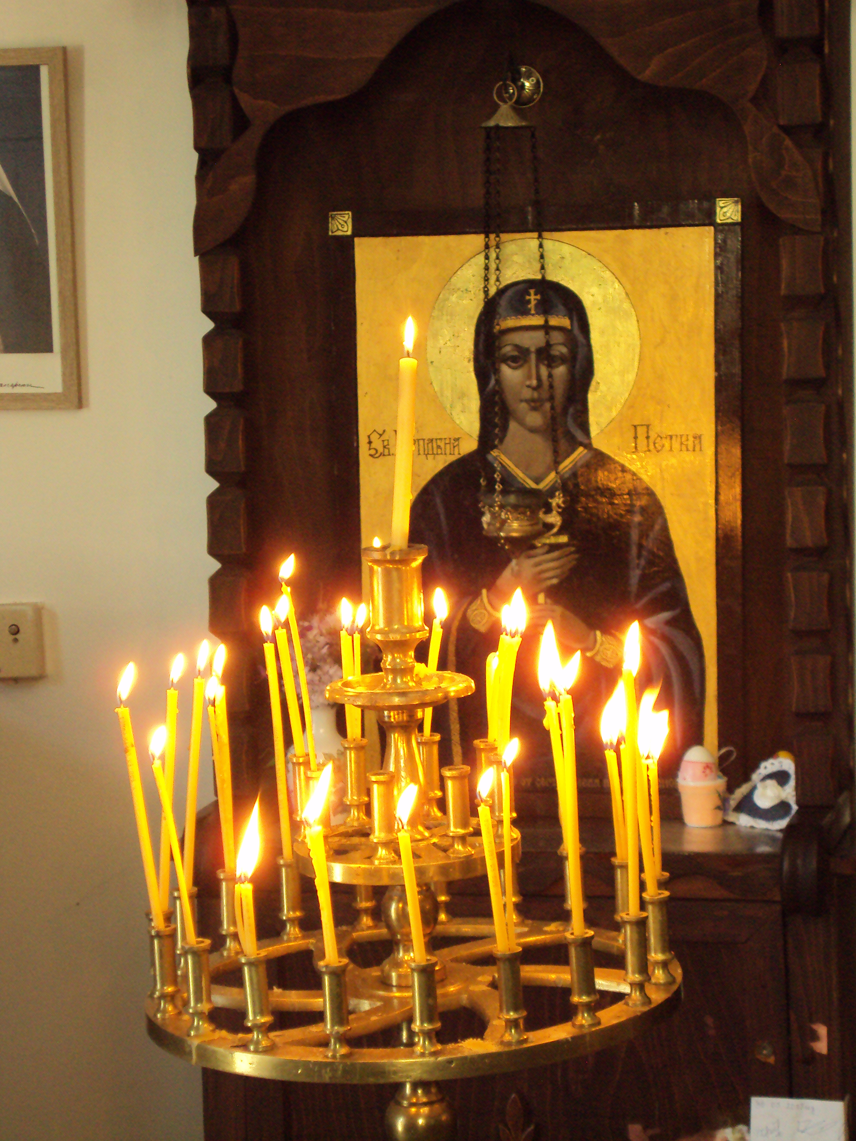 The old church "St Petka" in Breznik, Bulgaria